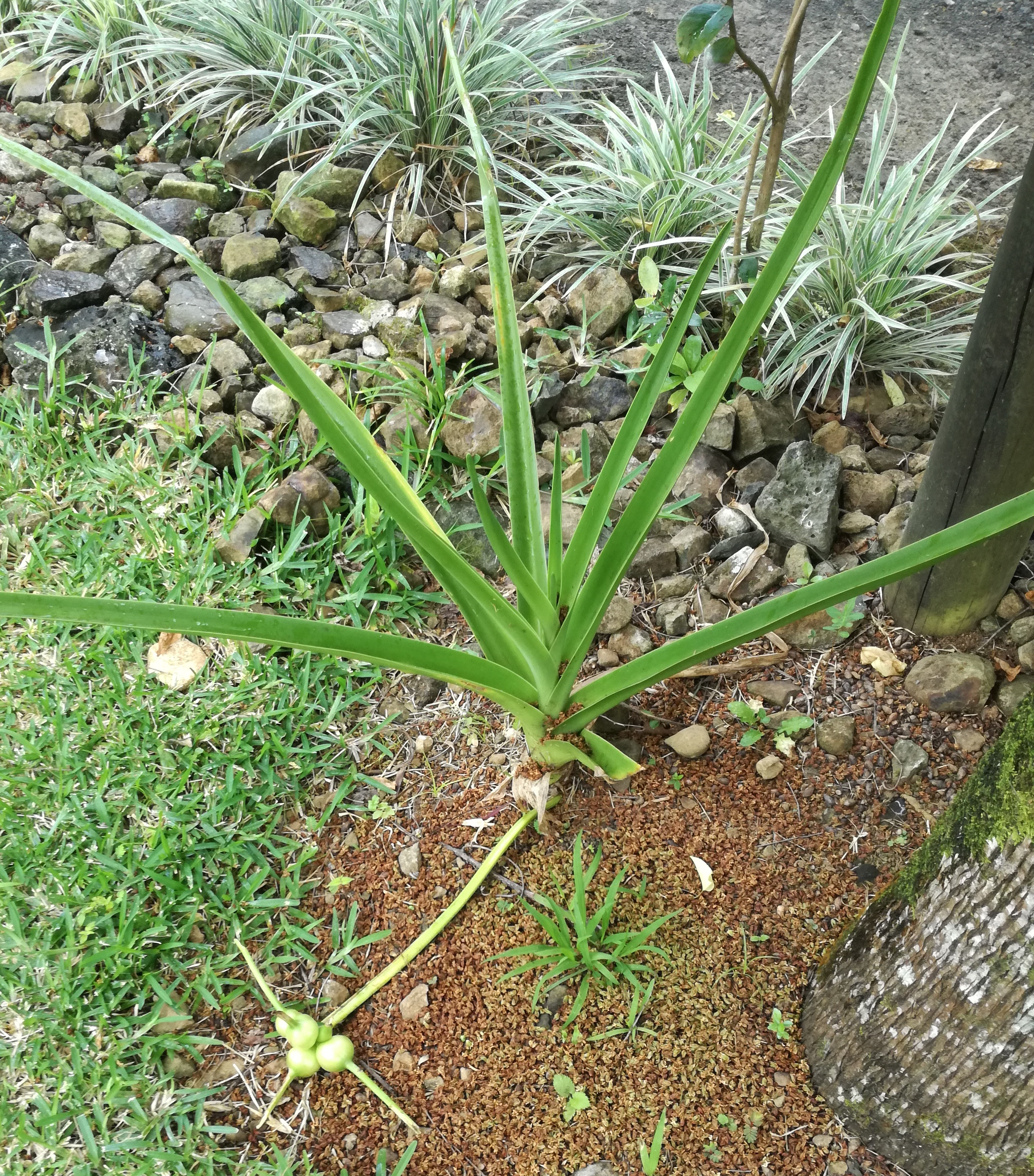 Crinum mauritianum Vallee dOosterlog